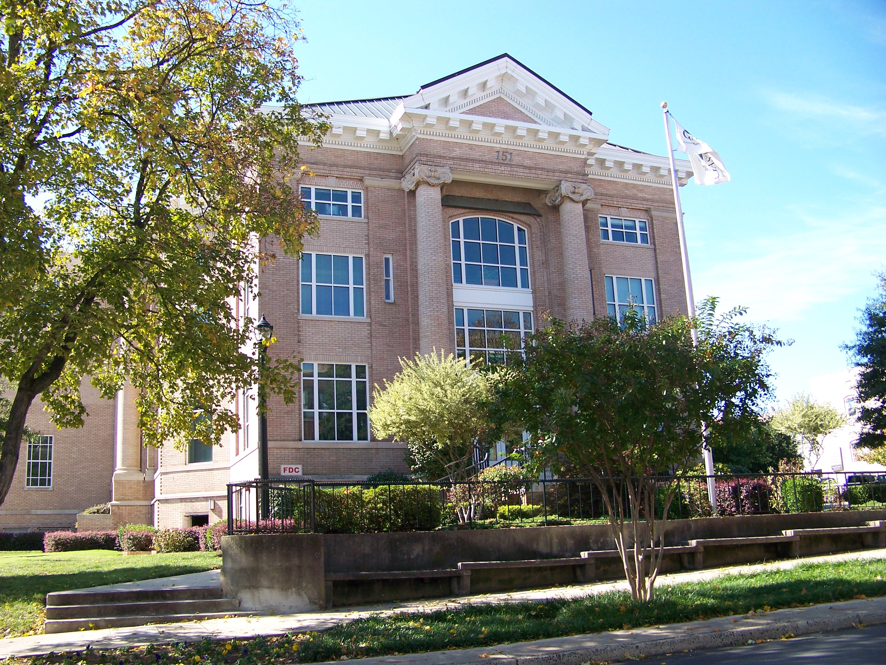 1910 Gaston County Courthouse, listed on the National Register of Historic Places (NRHP). It is located in the Downtown Gastonia Historic District, which is also listed on the NRHP.